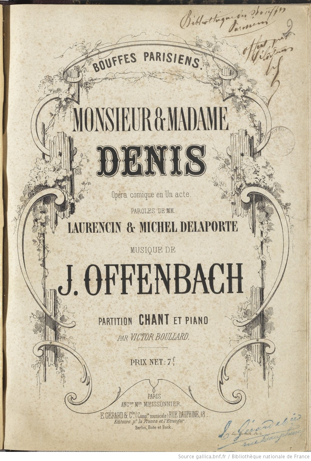 Title page of partition (voice and piano) of Monsieur et Madame Denis, opéra-comique by Jacques Offenbach